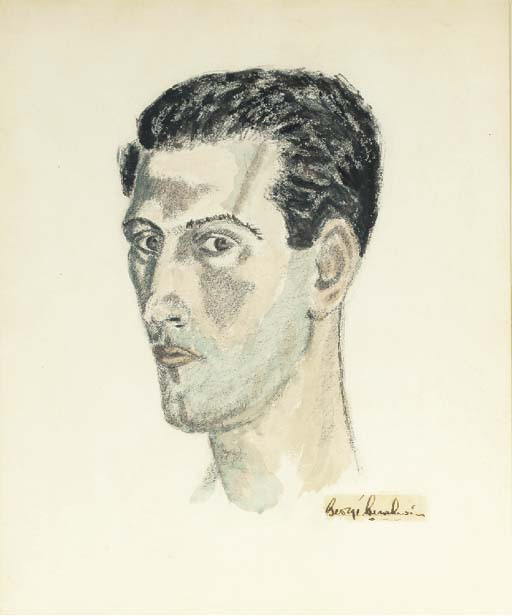 Selfportrait. Charcoal and watercolor on paper. Provenance: Samuel and Frances Goldwyn collection, given by Frances Goldwyn to Benita Hume Colman in the 1930s. 17 x 14 inches